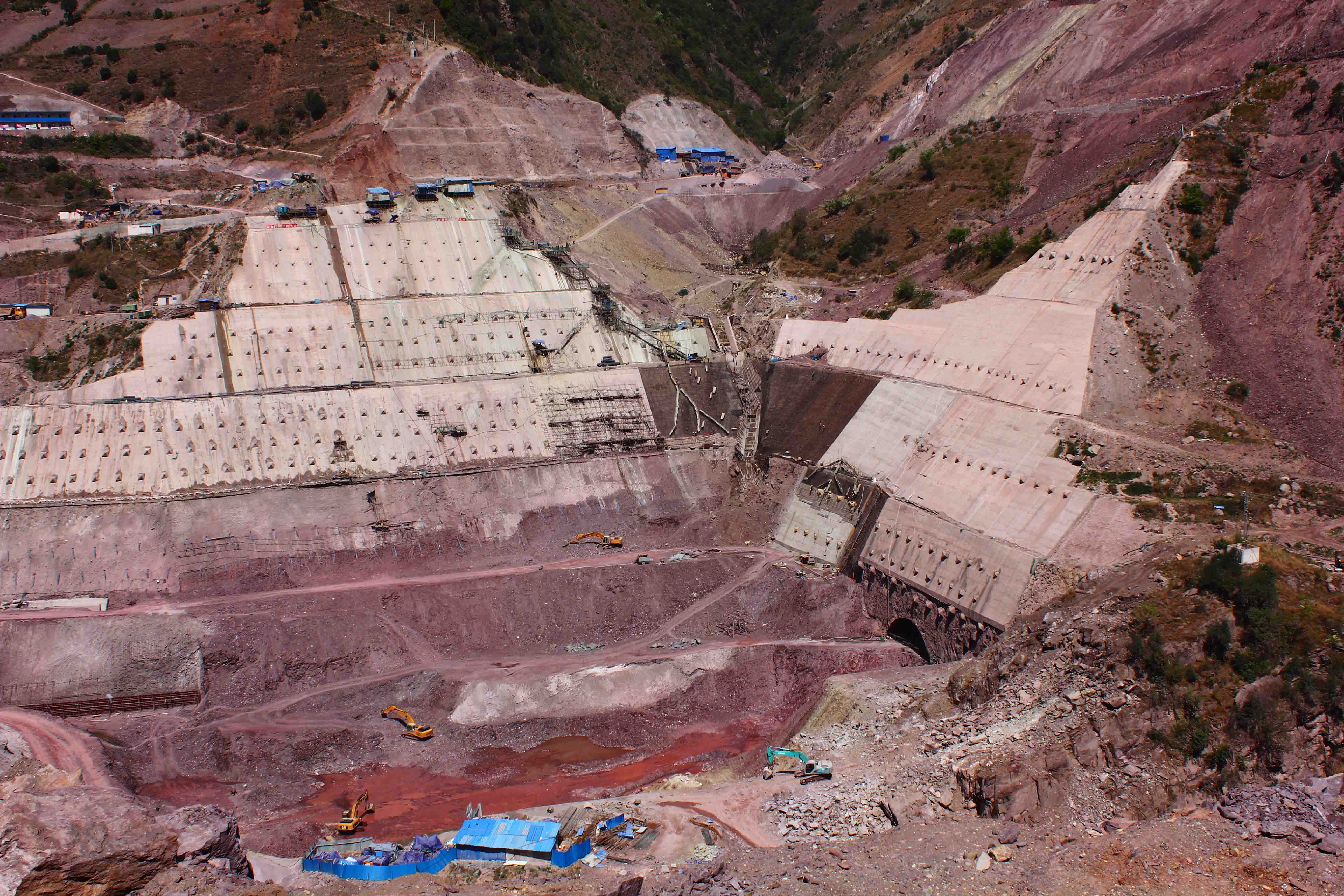 Huangdeng Hydropower Station under construction